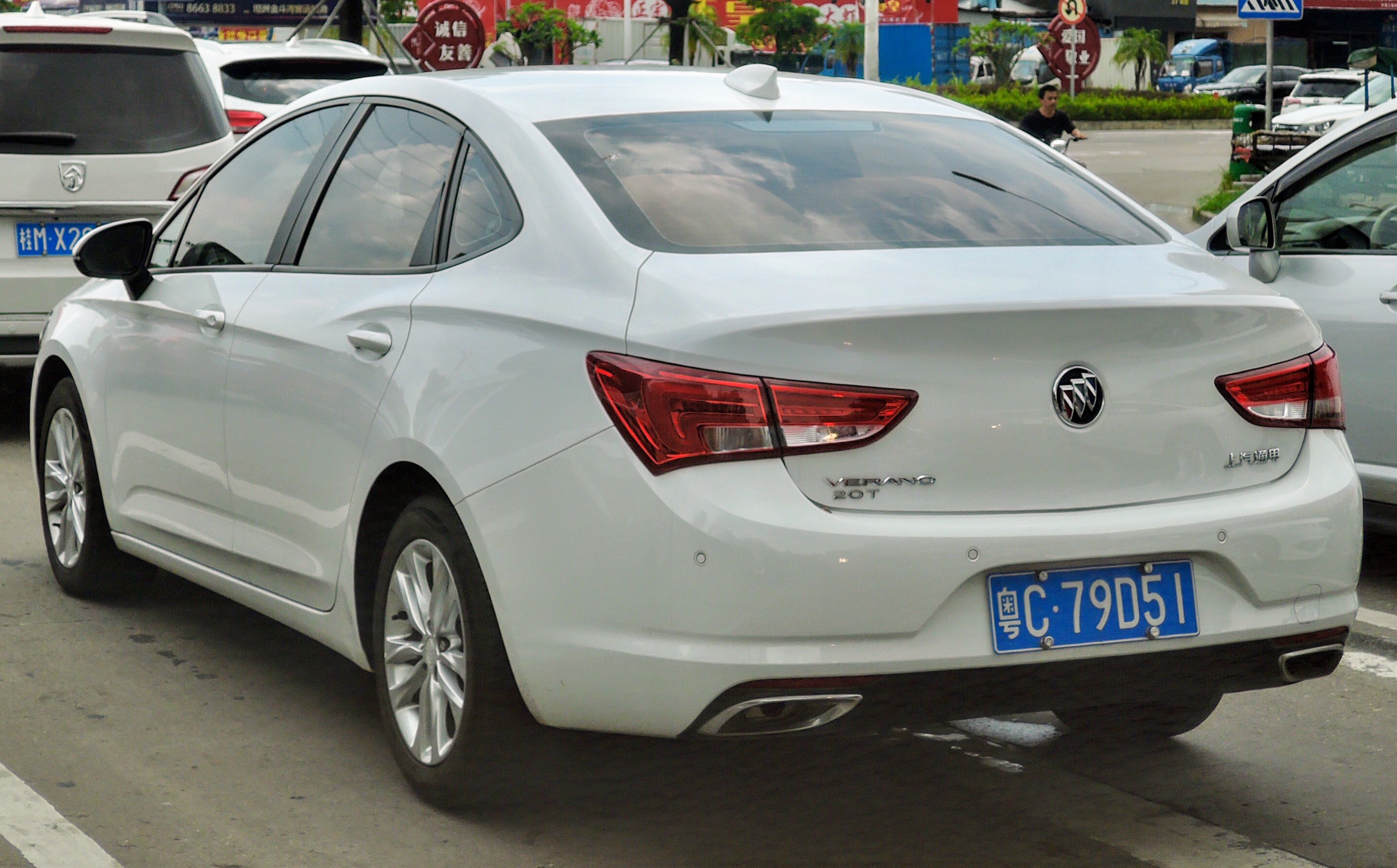 A 2017 Buick Verano taken in Zhuhai, Guangdong province, China. 中文（中国大陆）: 一辆2017年的别克威朗，摄于中国广东省珠海市。